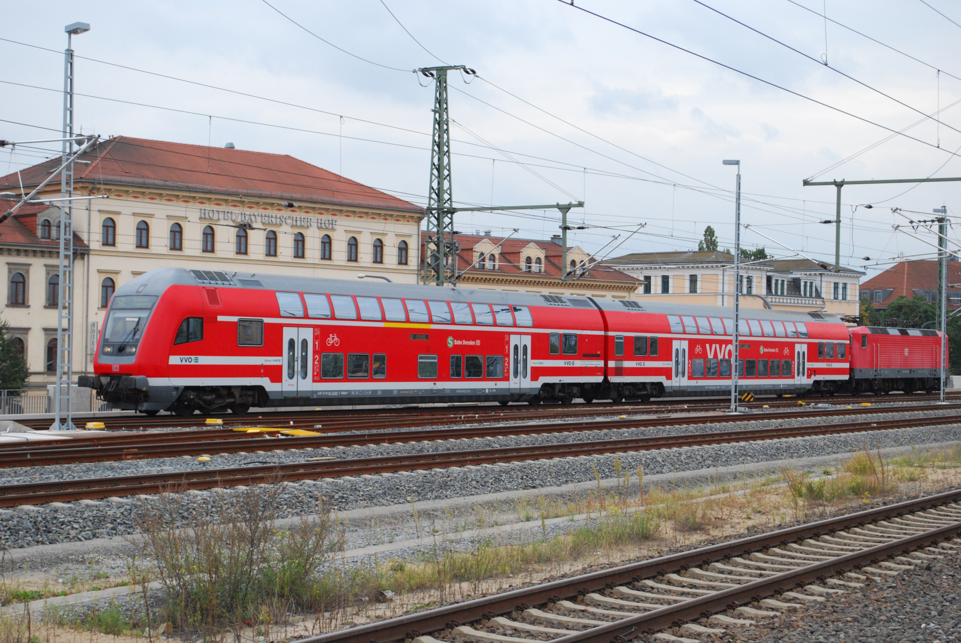 Leaving Bahnhof Dresden-Neustadt on a Dresden S-Bahn push-pull service on 21 September 2015 is a DB Class 143.8 (ex-DR Class 243) LEW 15k v ac 4,985 hp Bo-Bo. In 1984-90 LEW built 973 of what was concieved as the standard East German freight loco (a version of the passenger Class 212 prototype of 1982) but was then adapted to mixed traffic duties. The last electric loco to be designed and mass produced in east Germany and highly successful. So good did they prove that after unification DB have used them a lot on push-pull local and DB Regio regional passenger services, allowing a lot of old DB locos to be withdrawn. But they are now themselves being displaced by younger DB classes as more ICE trains come on stream. The DVT is a Type 766 DBpbzfa built 2004-09 by Bombardier, Gorlitz.